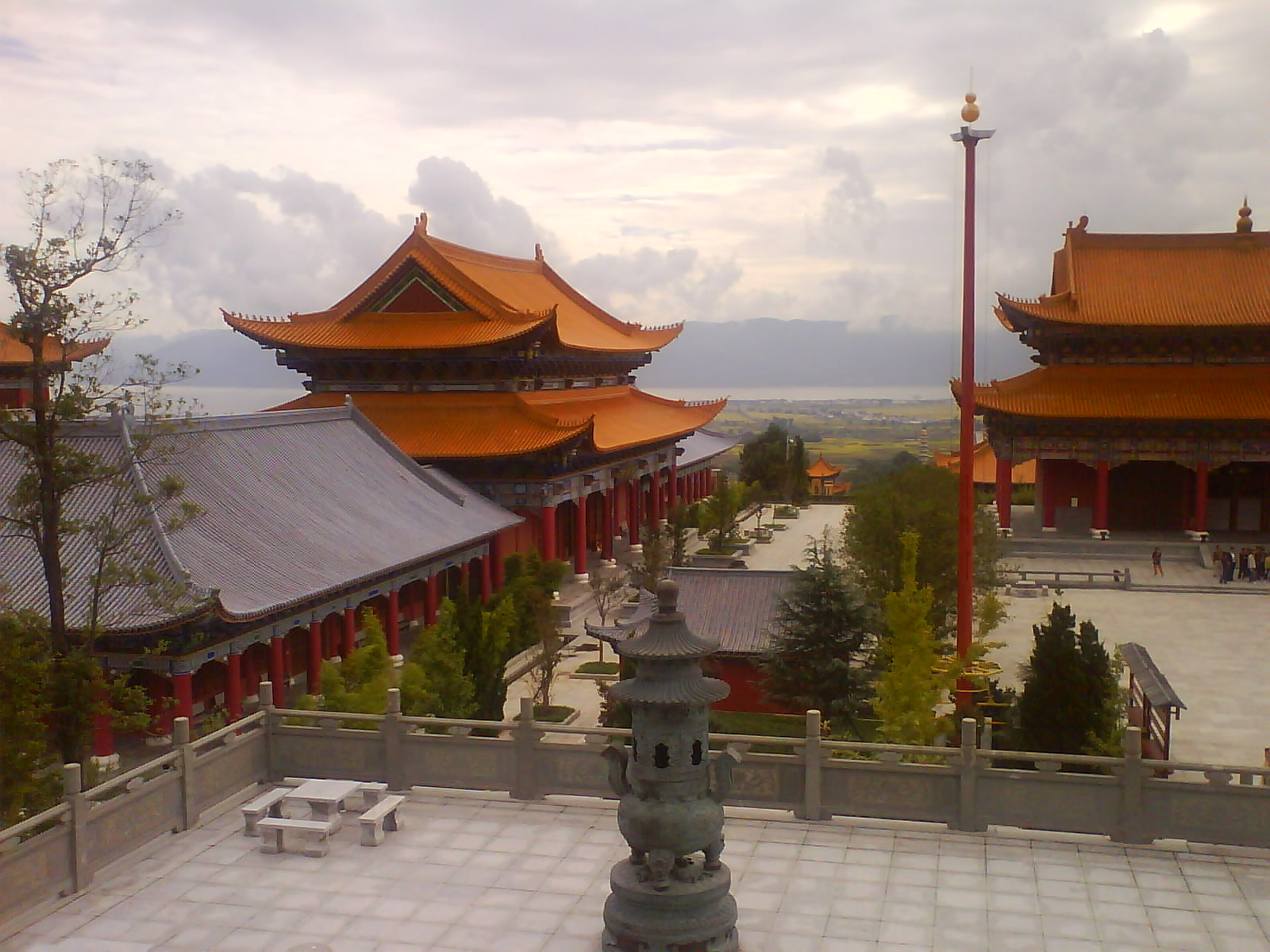 Temple Chongsheng (重聖寺) de Dali(大理), Yunnan, Chine, vue vers le lac